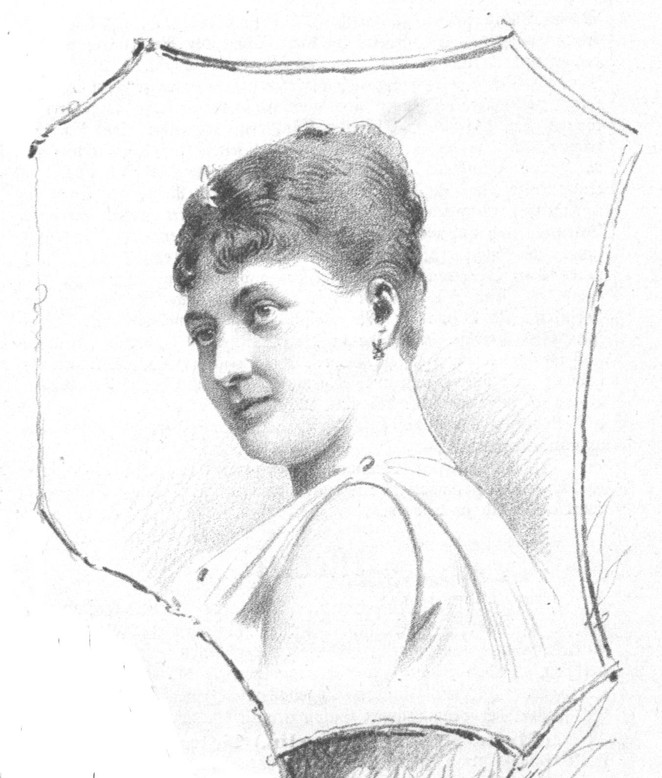 Portrait of Nuscha Butze (1860-1913), German actress and theatre director.